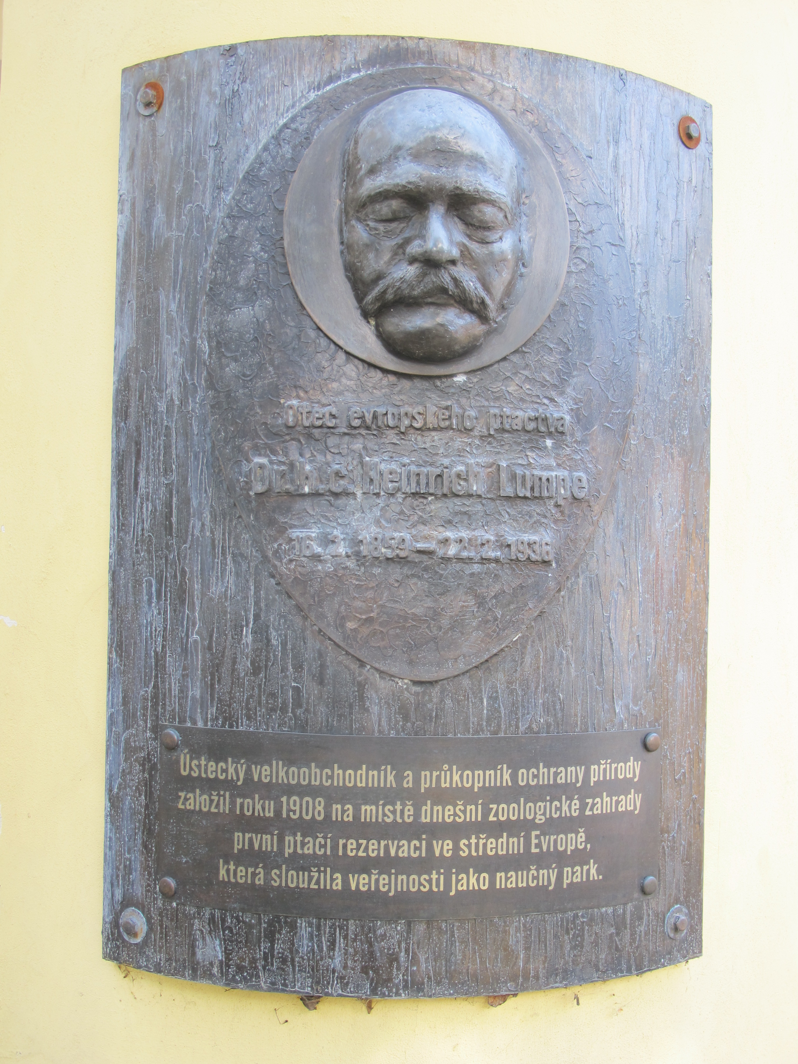 Heinrich Lumpe commemorative plaque in Ústí nad Labem Zoo.